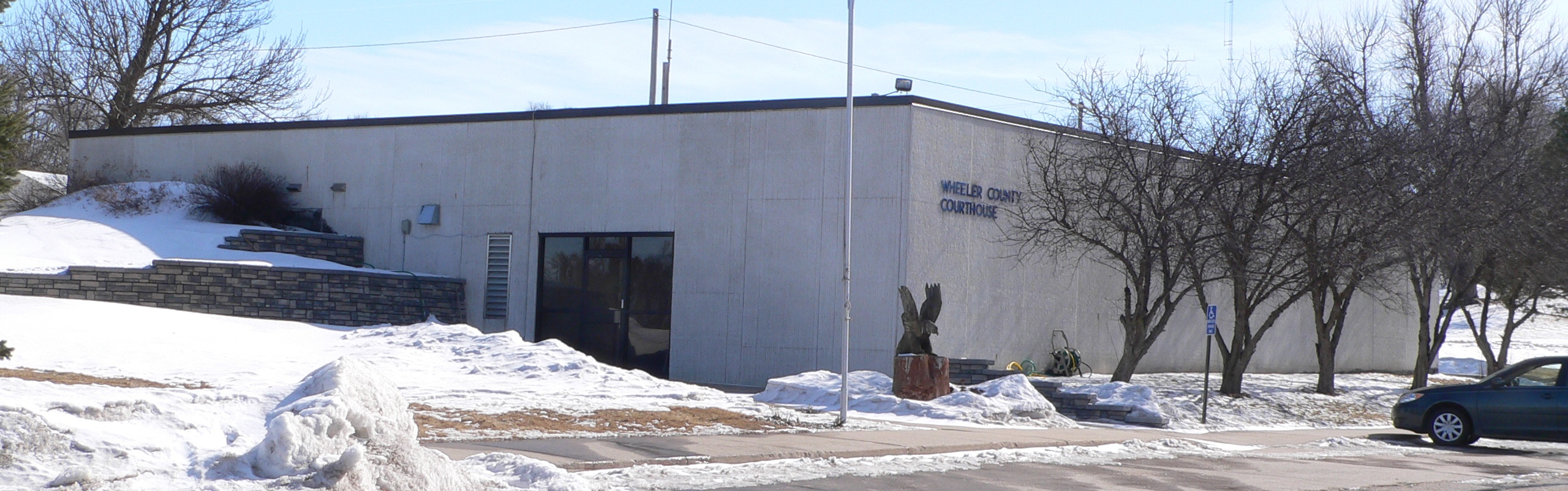 Wheeler County courthouse in Bartlett, Nebraska; seen from the northwest. According to courthouse employees, the building was constructed in 1982; there is no cornerstone or builder's plaque with the date on it.